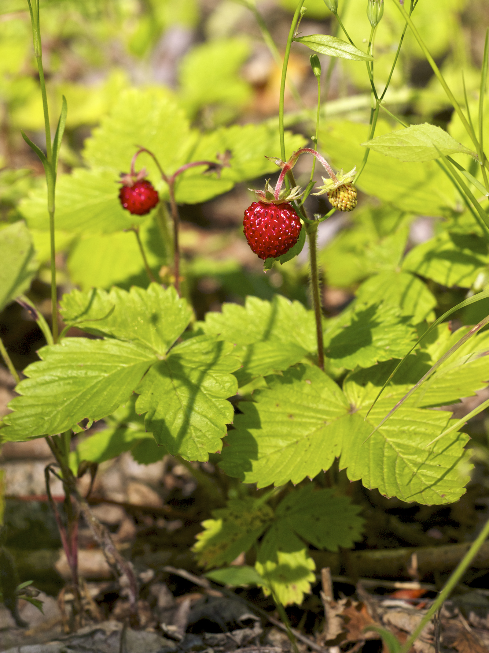 Wild Strawberry (Fragaria vesca), Lake Bockwitz, Saxony, Germany